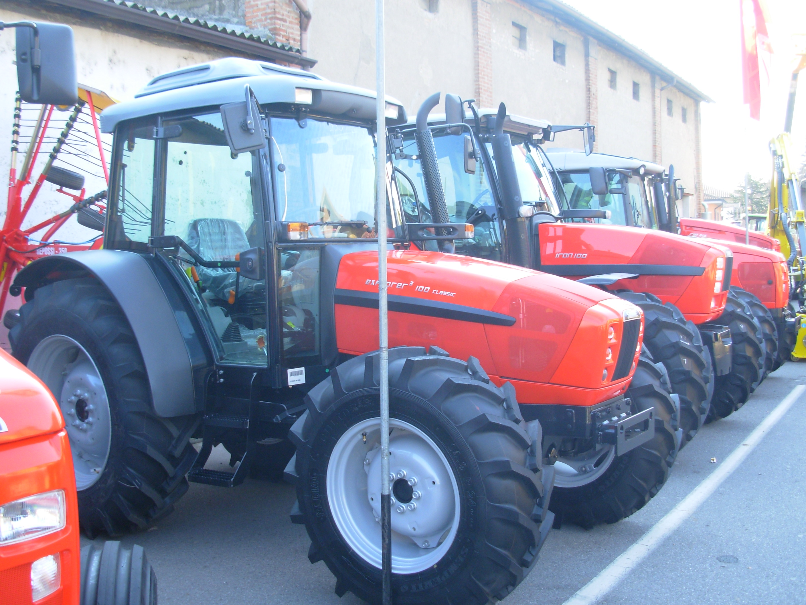 SAME tractors Explorer³ 100 Classic, Iron 100 and other models; a Repossi 350 rotary rake in the background